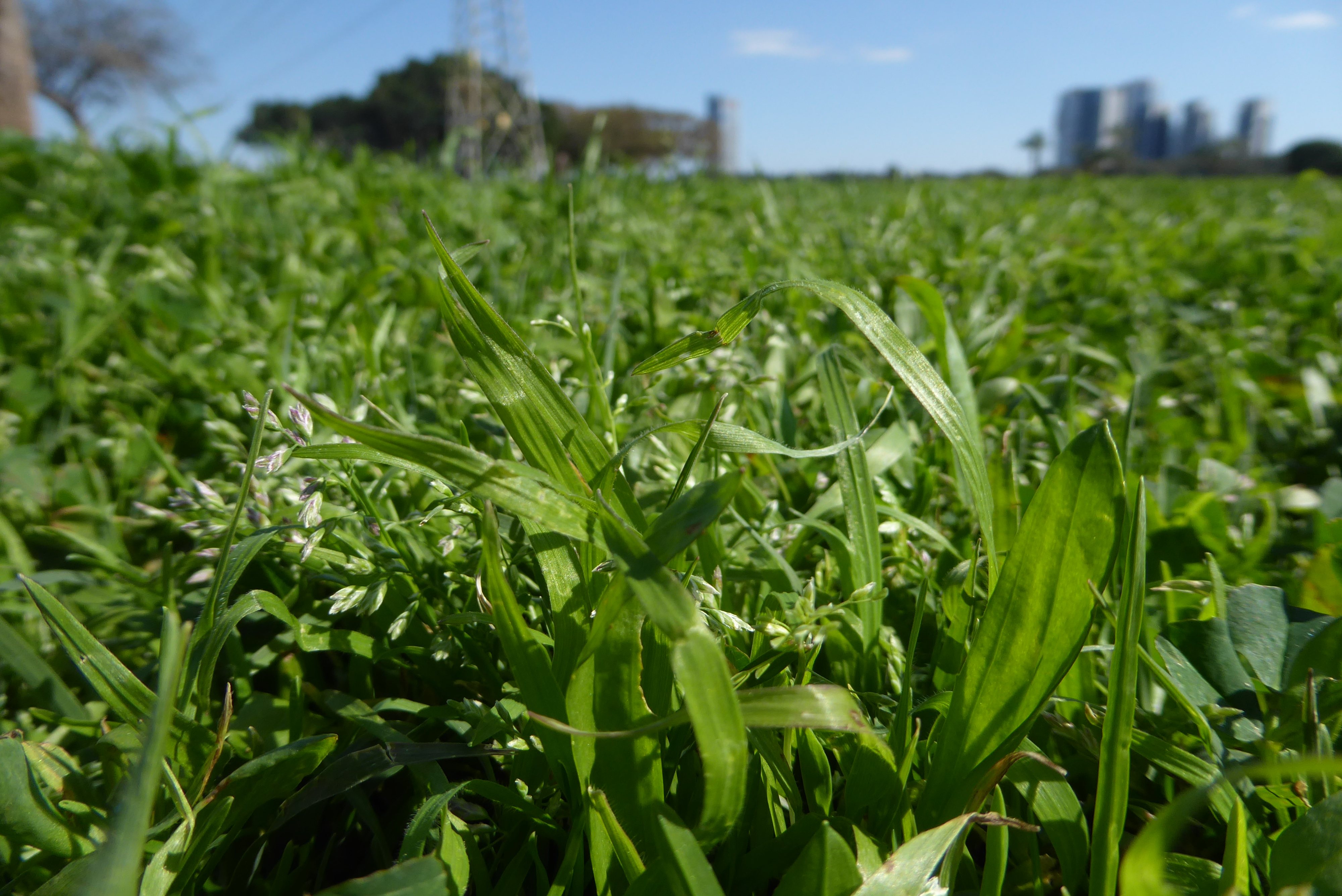 Flora of Israel